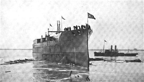 Ottoman battleship Reşadiye at her launching in 1913.